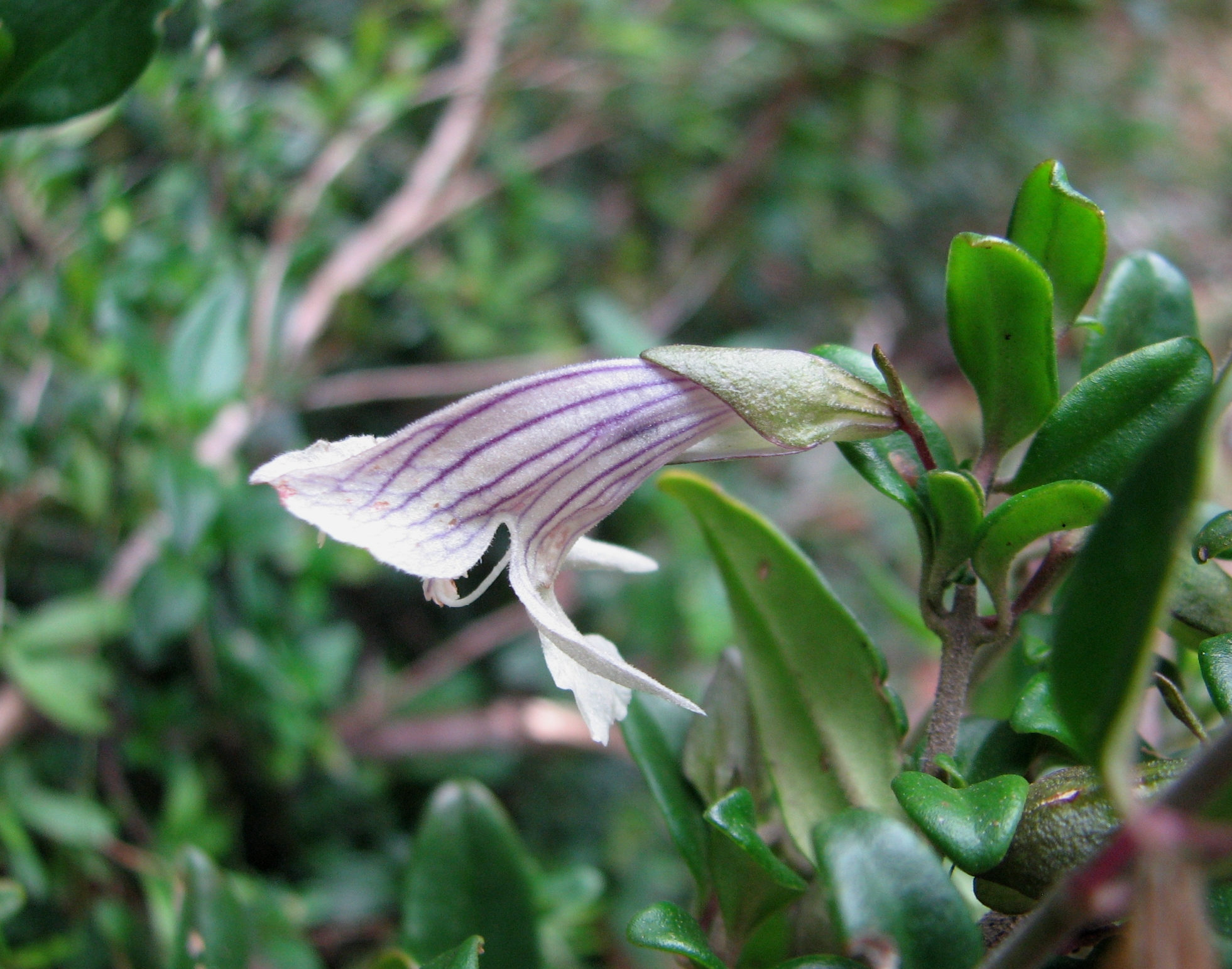 Prostanthera walteri, Mount Elizabeth, Victoria, Australia